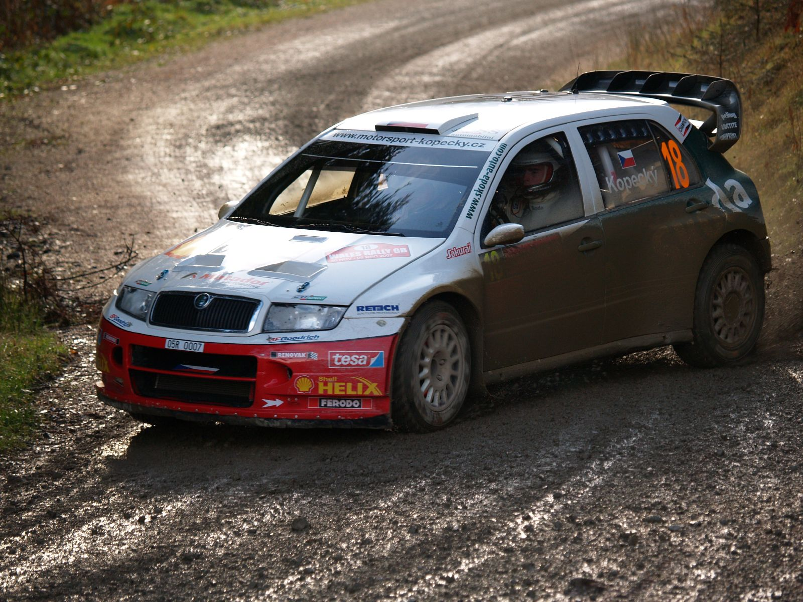 Jan Kopecký driving his Škoda Fabia WRC during 2007 Wales Rally GB.